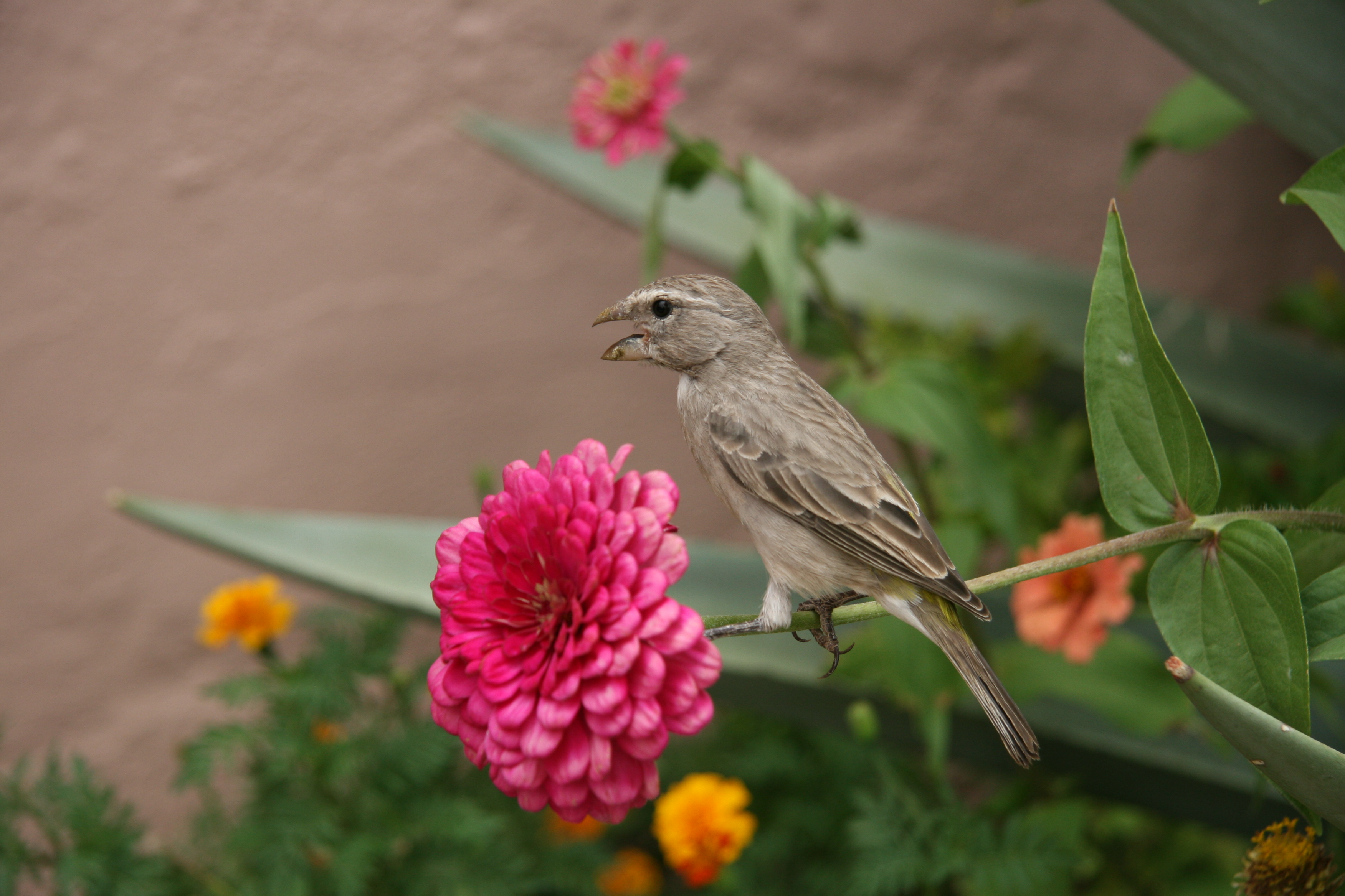 White-throated Canary (Serinus albogularis) on flower-stem. Location: Canon Lodge, South Namibia.